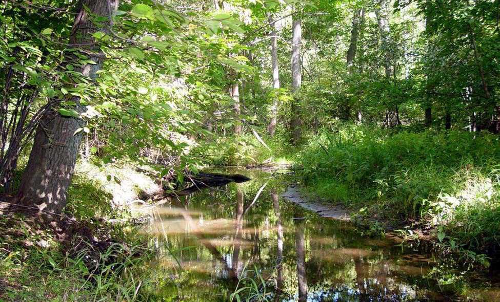 Photo of Dunes Creek